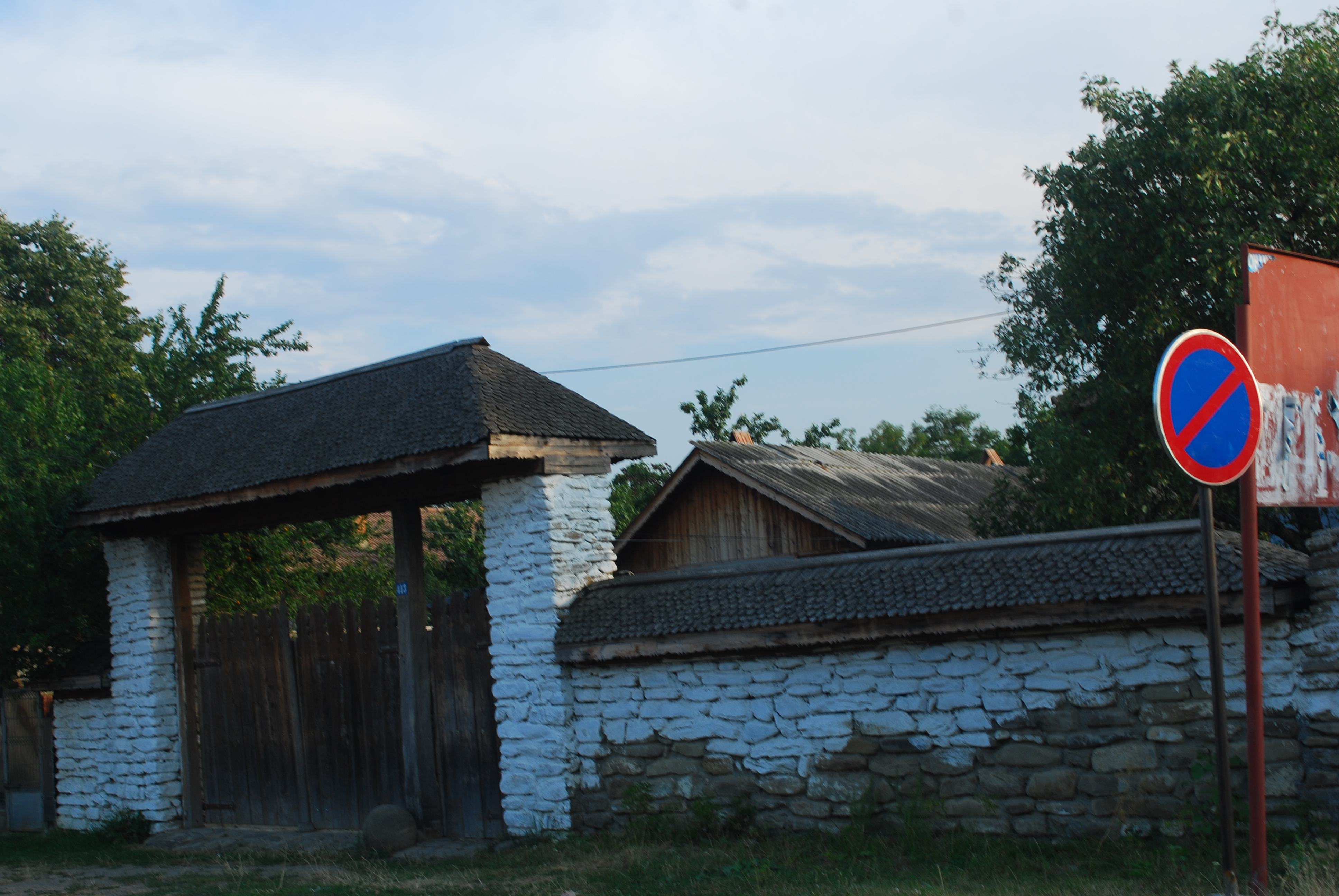 Gate to Traian Drăgulin household in Chiojdu, Buzău County, RomaniaRomână: Poarta gospodăriei Traian Drăgulin din Chiojdu, județul Buzău, România 02